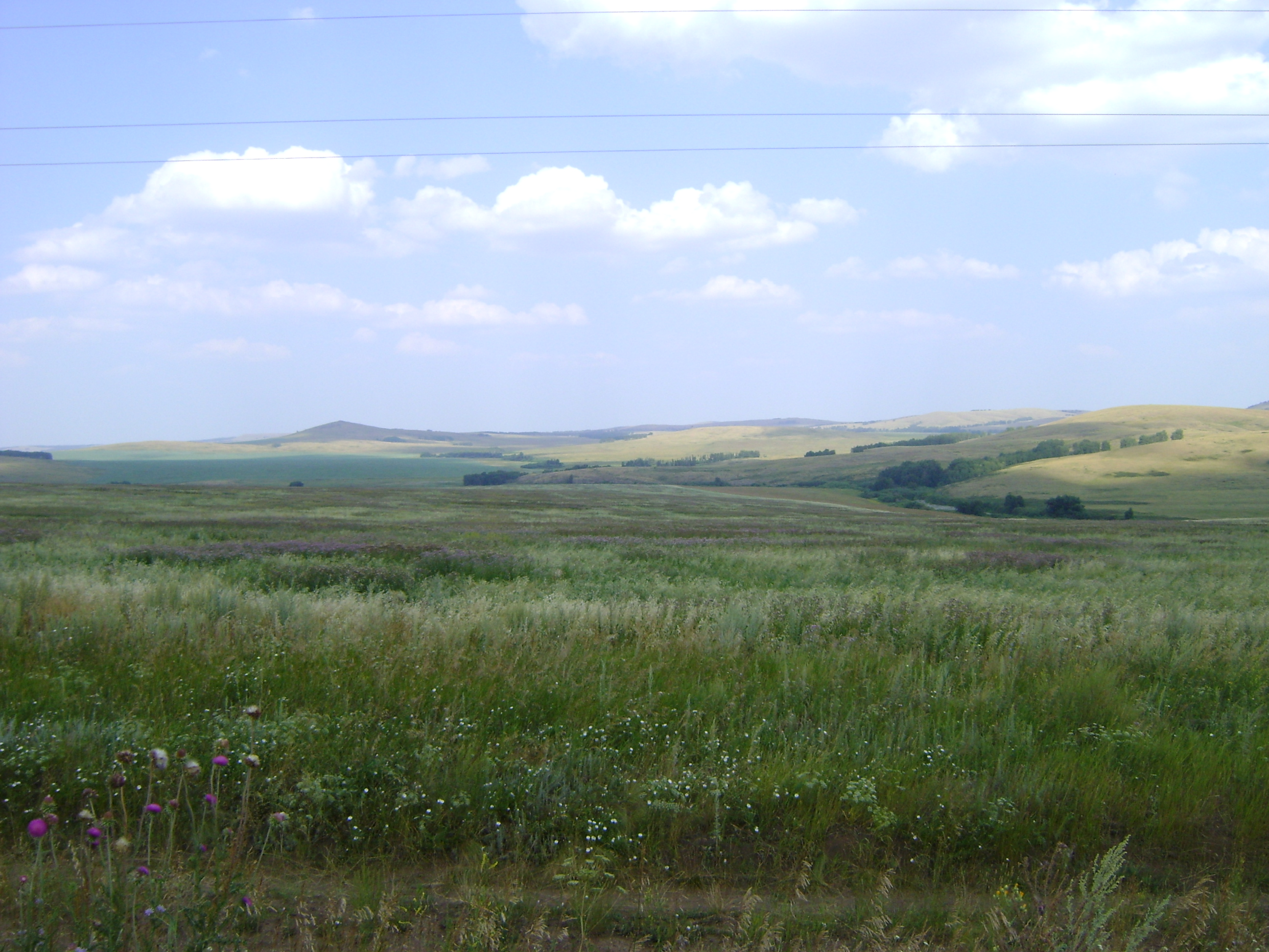 Haibullinsky district of Bashkortostan